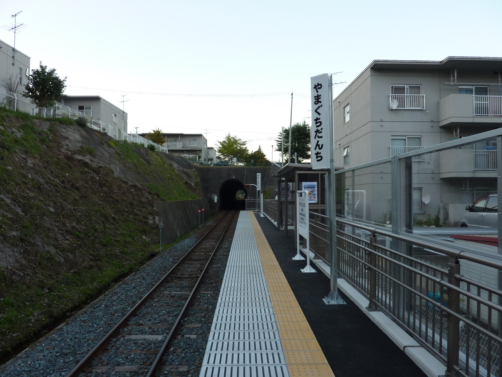 Yamaguchi Danchi Station on Sanriku Railway Kita Riasu Line in 203-1 Yamaguchi 3-chome, Miyako, Iwate, Japan